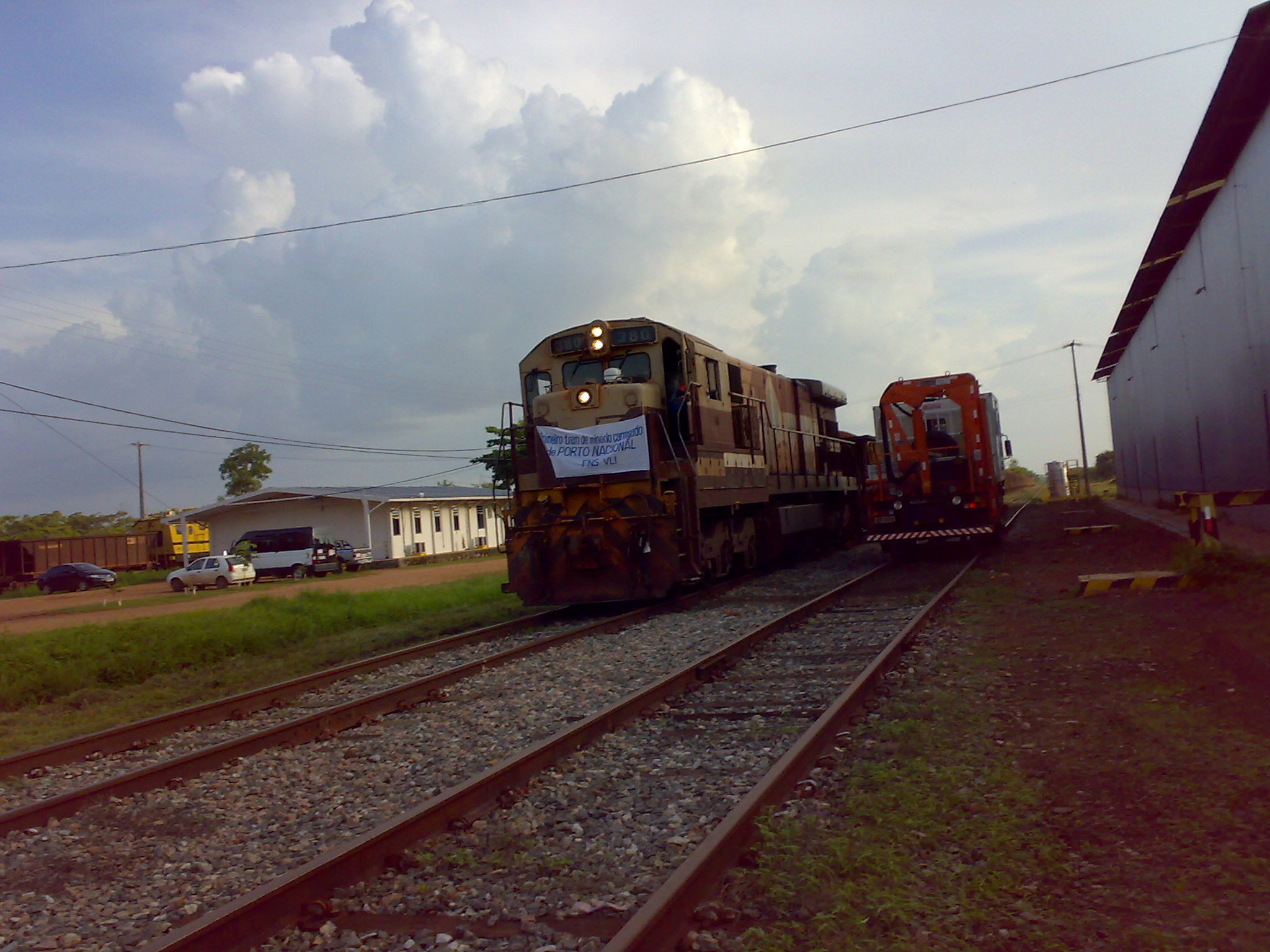 First train pulling iron ore loaded in Porto Nacional at FNS. The previous trains were loaded in Guaraí. The mine is in Lagoa da Confusão.